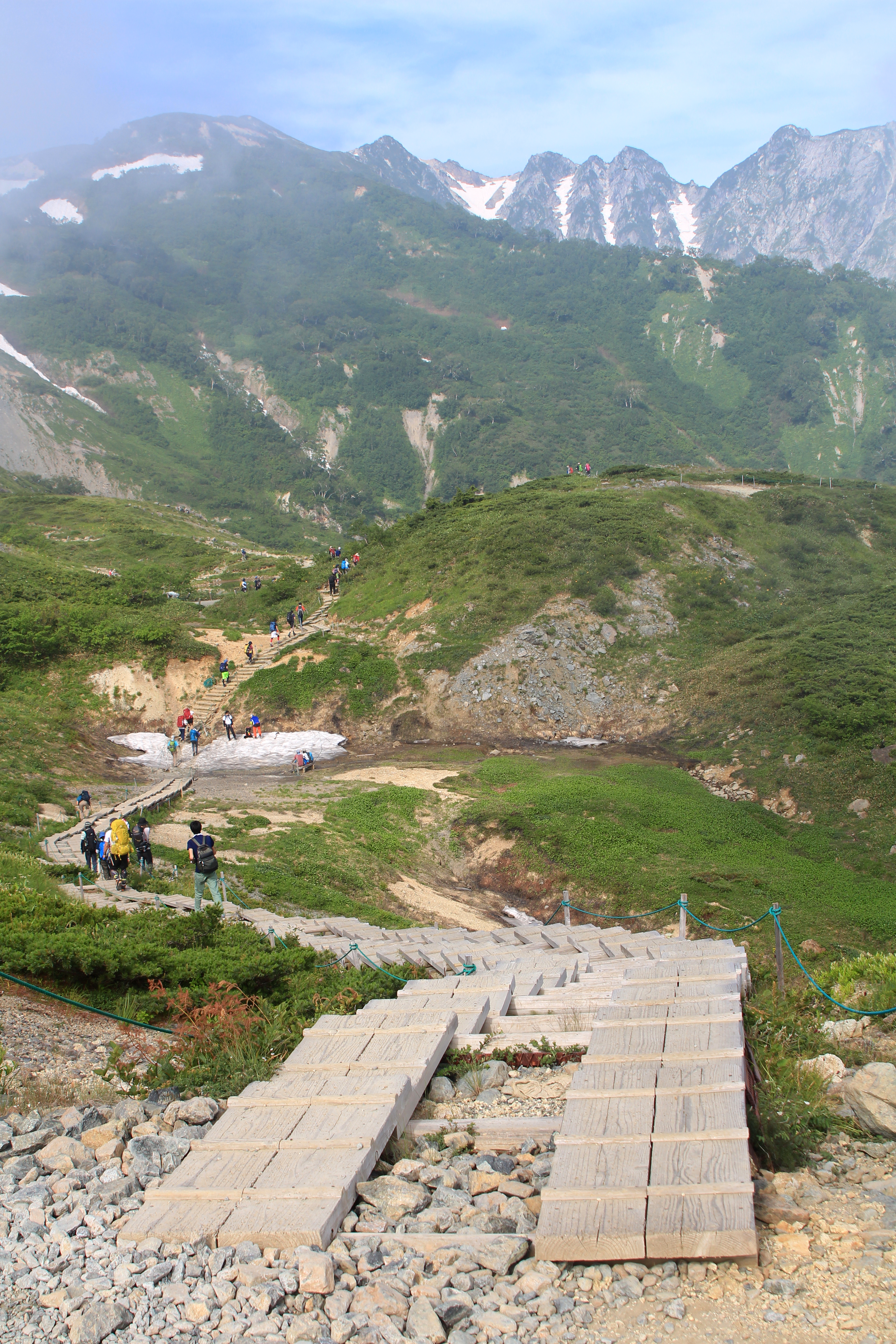 Boardwalk around Happo Pond on Happo Ridge in Mount Karamatsu, Ushirotateyama Mountains (Hida Mountains), Hakuba, Nagano Prefecture, Japan.